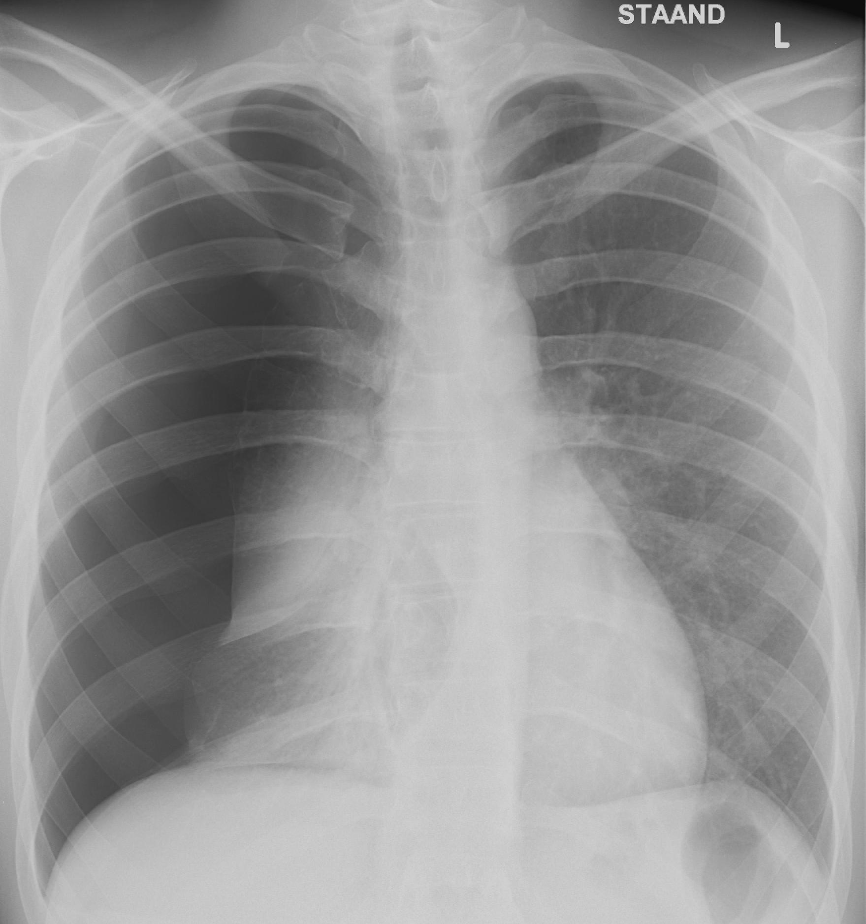 X-Ray of the chest of a 23 year old male, with pneumothorax